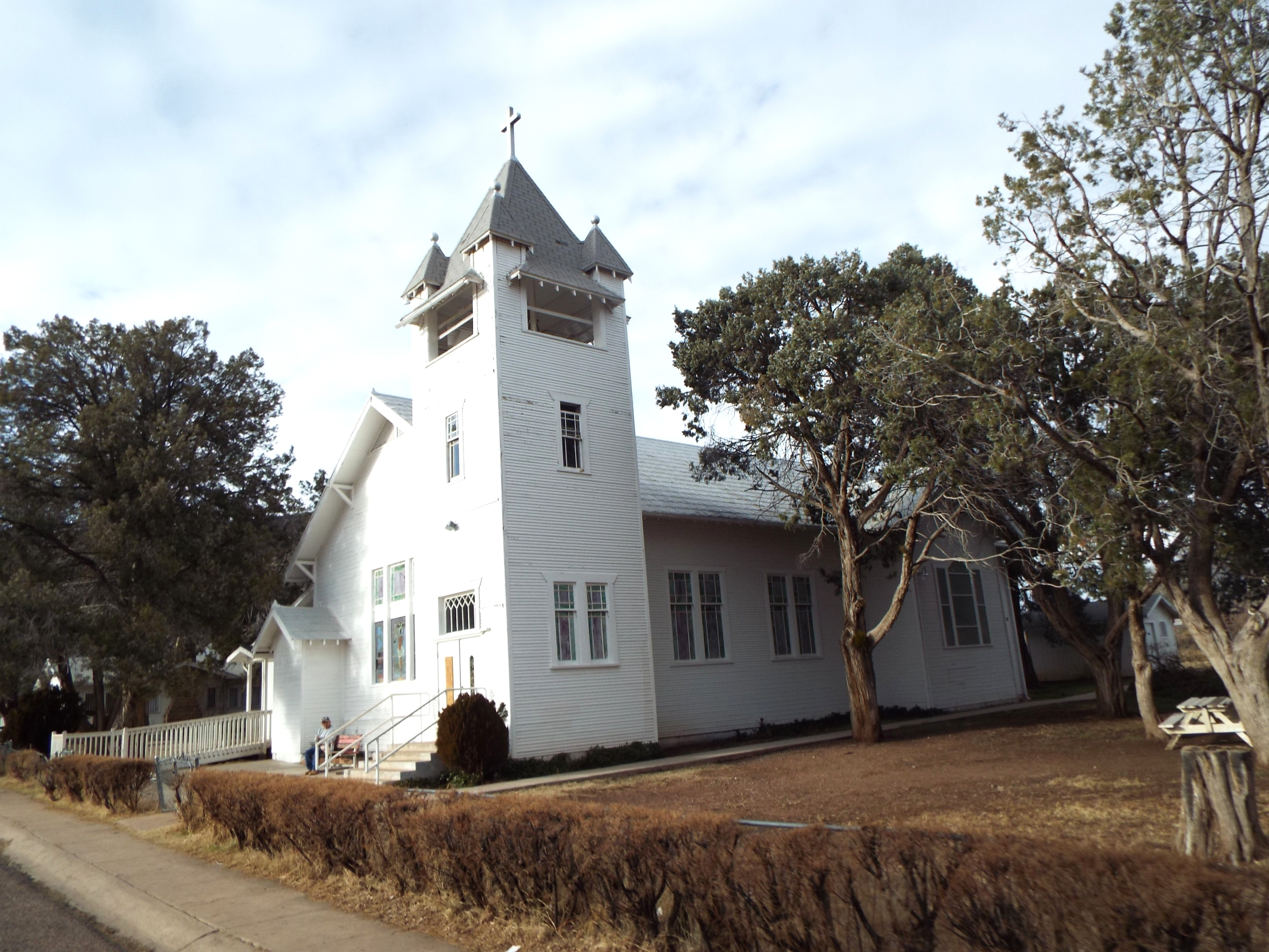 The historic Lutheran Apache Mission-1912 in Whiteriver, Az